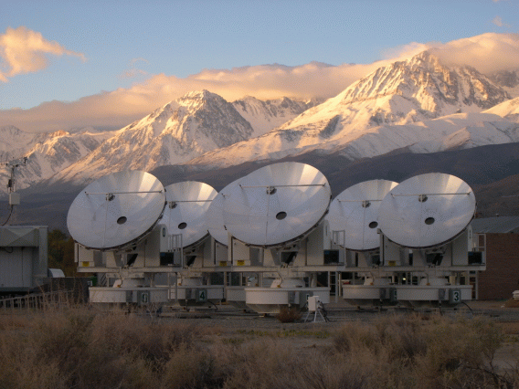 The Sunyaev–Zel'dovich Array, in the Owens Valley with the eastern Sierra Nevada behind. an array of eight 3.5 meter radio telescopes operating as part of the Combined Array for Research in Millimeter-wave Astronomy (CARMA), now used primarily to characterize clusters via the Sunyaev-Zel'dovich effect. Photo taken in winter 2005.